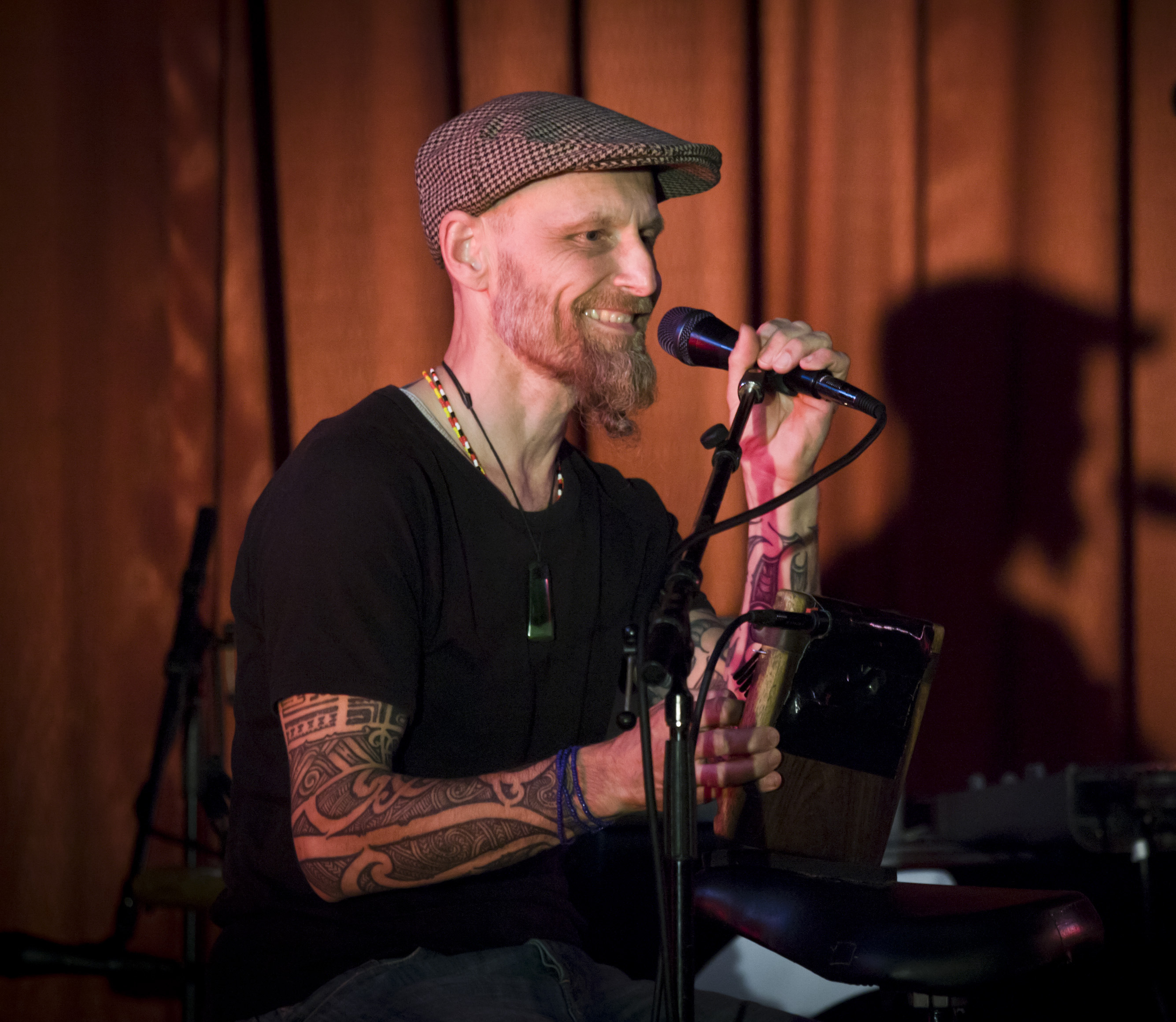 Yeshe playing live